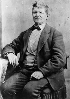 John D. Lee, a Mormon who was executed in Utah in 1877